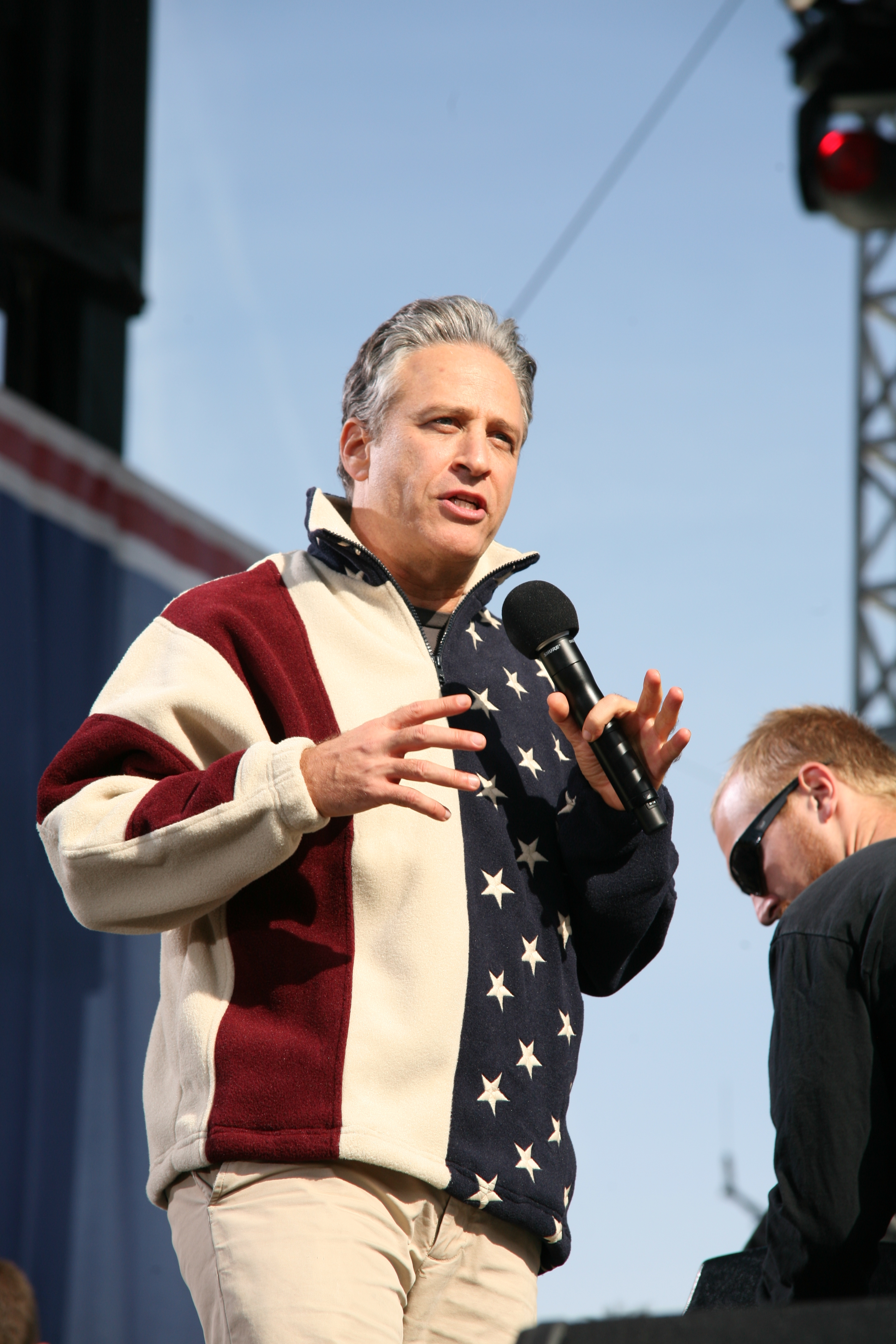 Rally to Restore Sanity and/or Fear